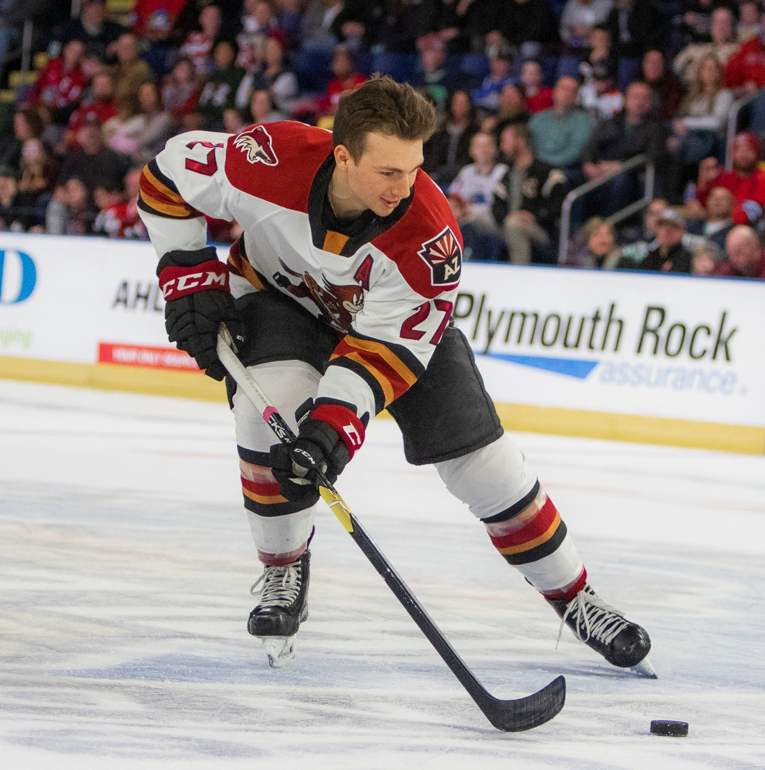 Photo By: Kelly Shea